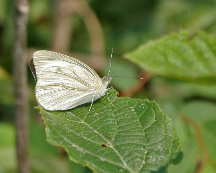 Lesser Gull Cepora nadina- Dry Season Form at Jayanti in Buxa Tiger Reserve in Jalpaiguri district of West Bengal, India.